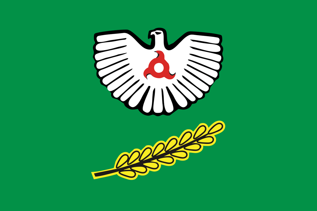 Flag of Nazran, Ingushetia, Russia